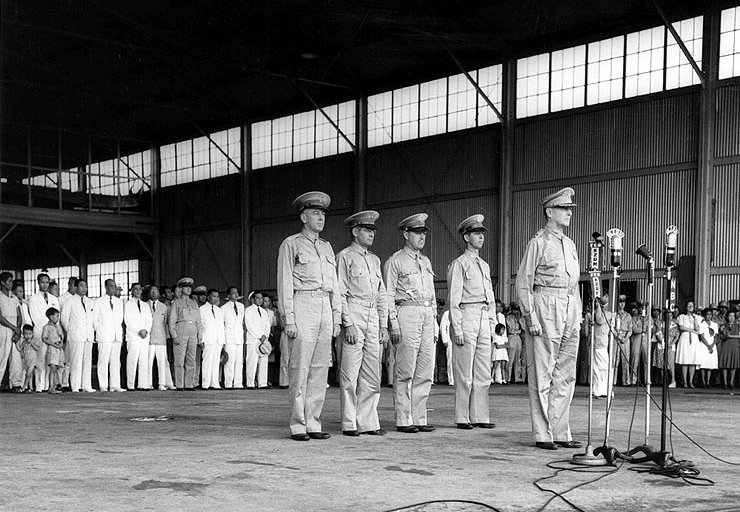 CEREMONY AT CAMP MURPHY, RIZAL, 15 August 1941, marking the induction of the Philippine Army Air Corps. Behind Lt. Gen. Douglas MacArthur, from left to right, are Lt. Col. Richard K. Sutherland, Col. Harold H. George, Lt. Col. William F. Marquat, and Maj. LeGrande A. Diller.